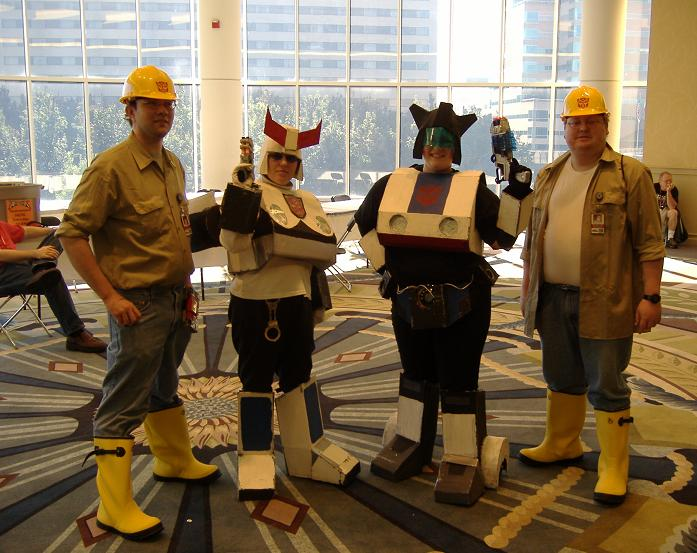 People dressed up as characters from Transformers at BotCon 2006, Lexington Convention Center, Kentucky.